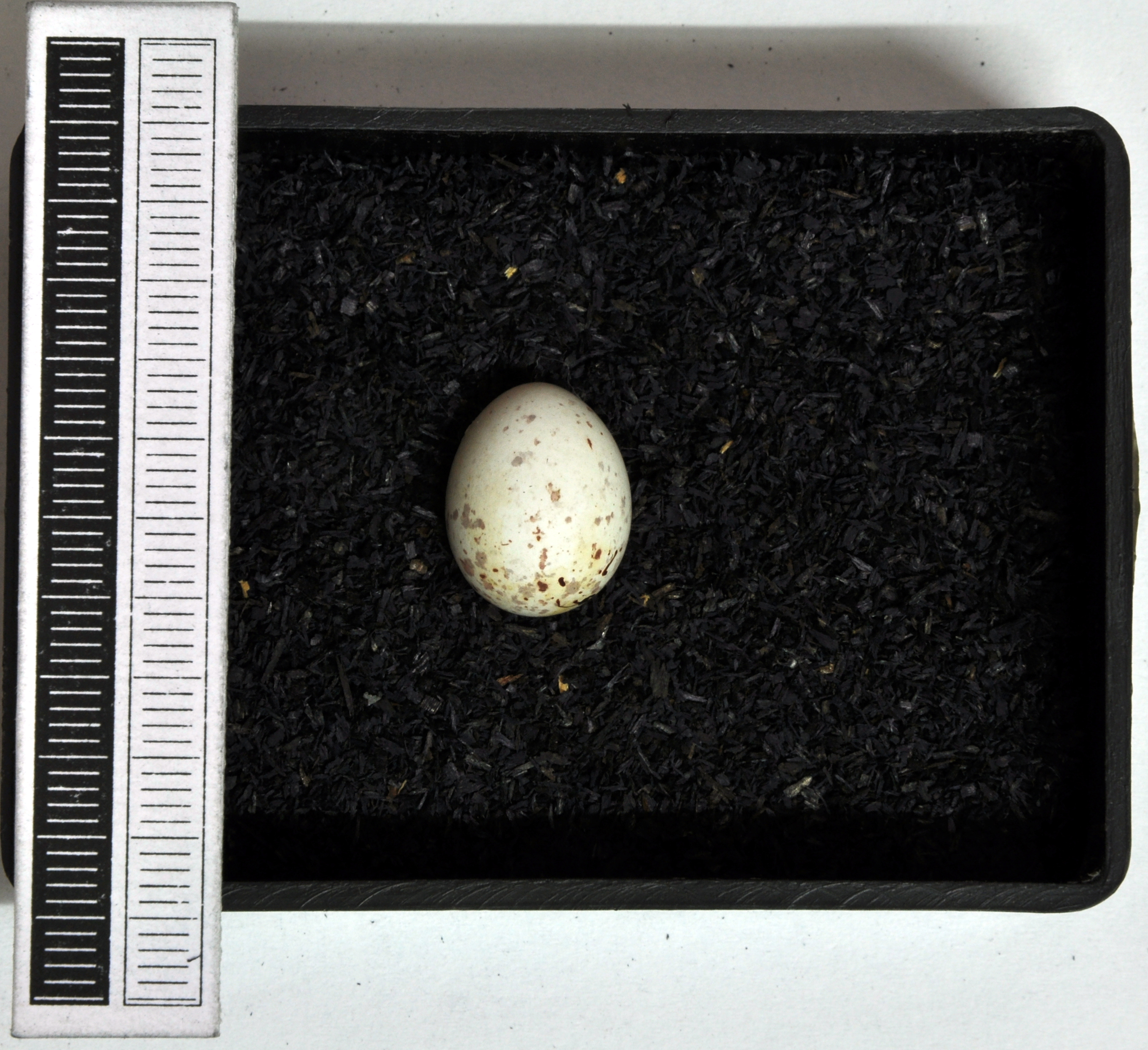 European serin Serinus serinus, egg, Coll. Museum Wiesbaden, Origin: Konfeld, Germany, 17.05.1969, leg. W. Abelmann